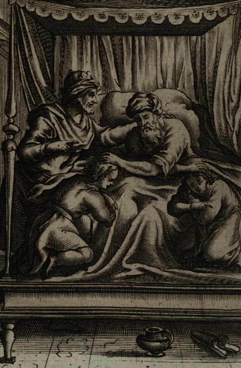 Jacob Blesses Joseph's Sons, engraving published in "La Saincte Bible, Contenant le Vieil and la Nouveau Testament, Enrichie de plusieurs belles figures/Sacra Biblia, nouo et vetere testamento constantia eximiis que sculpturis et imaginibus illustrata, De Limprimerie de Gerard Jollain"